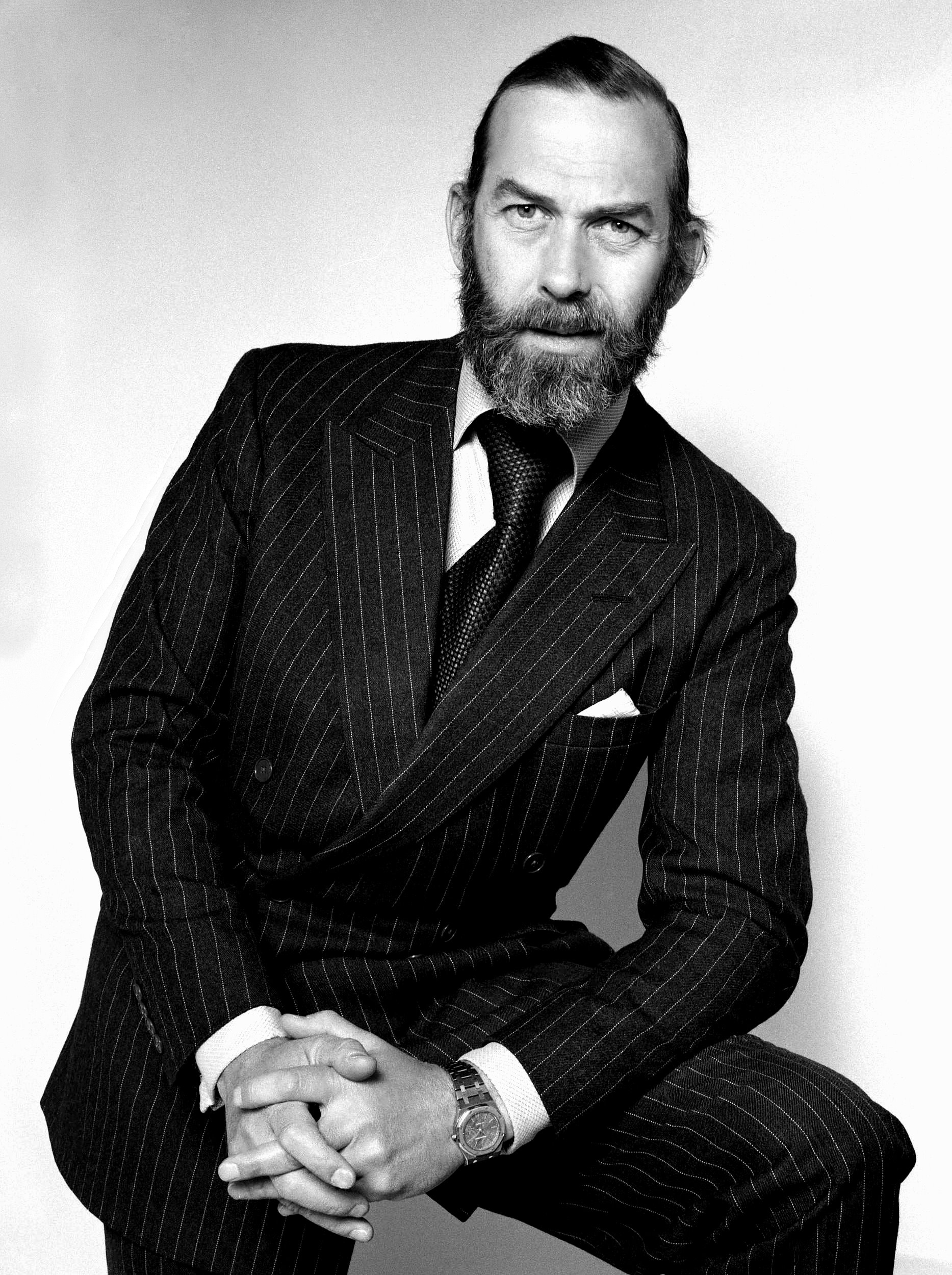 Portrait of HRH Prince Michael of Kent